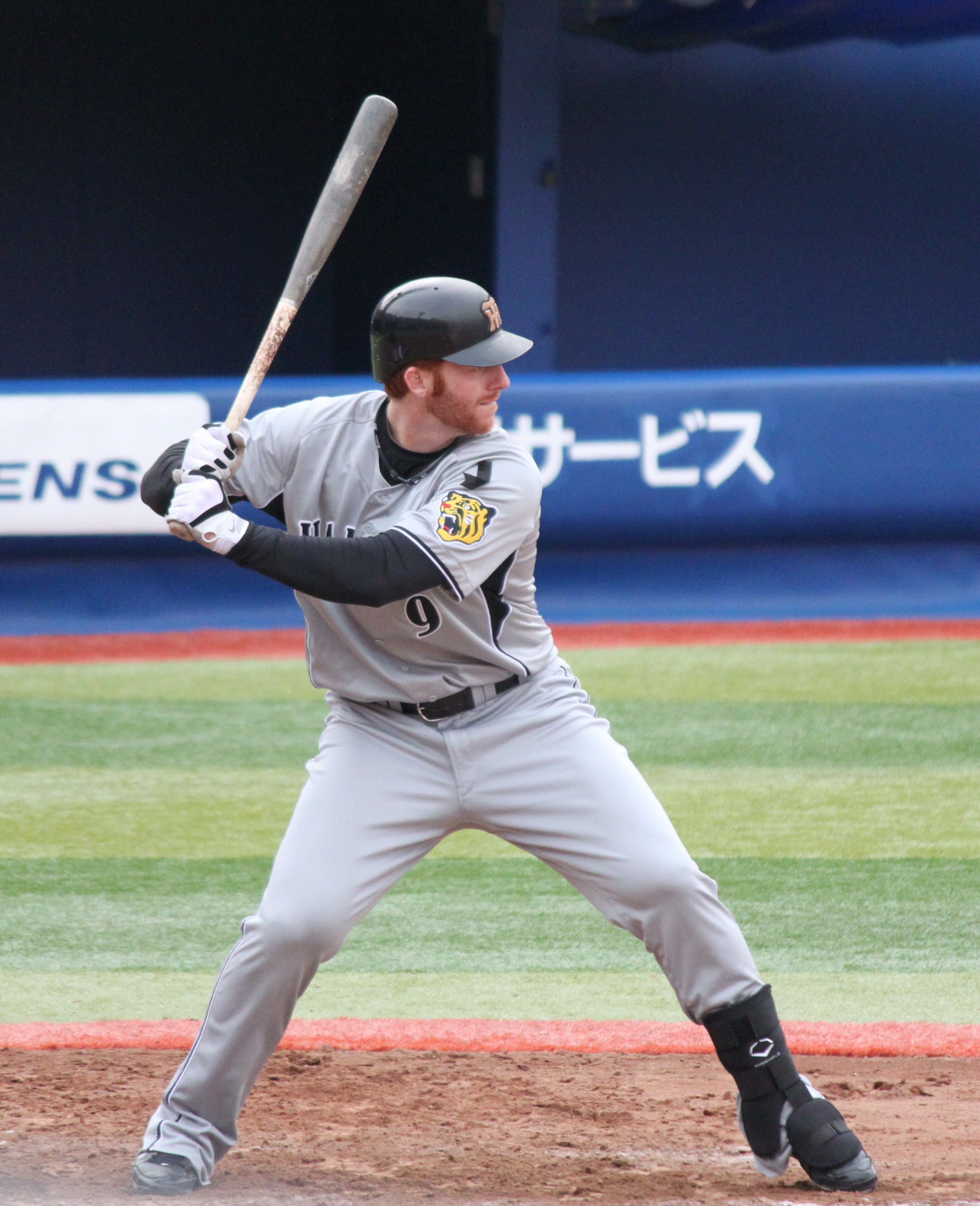 Matt Murton, outfielder of the Hanshin Tigers, at Yokohama Stadium.